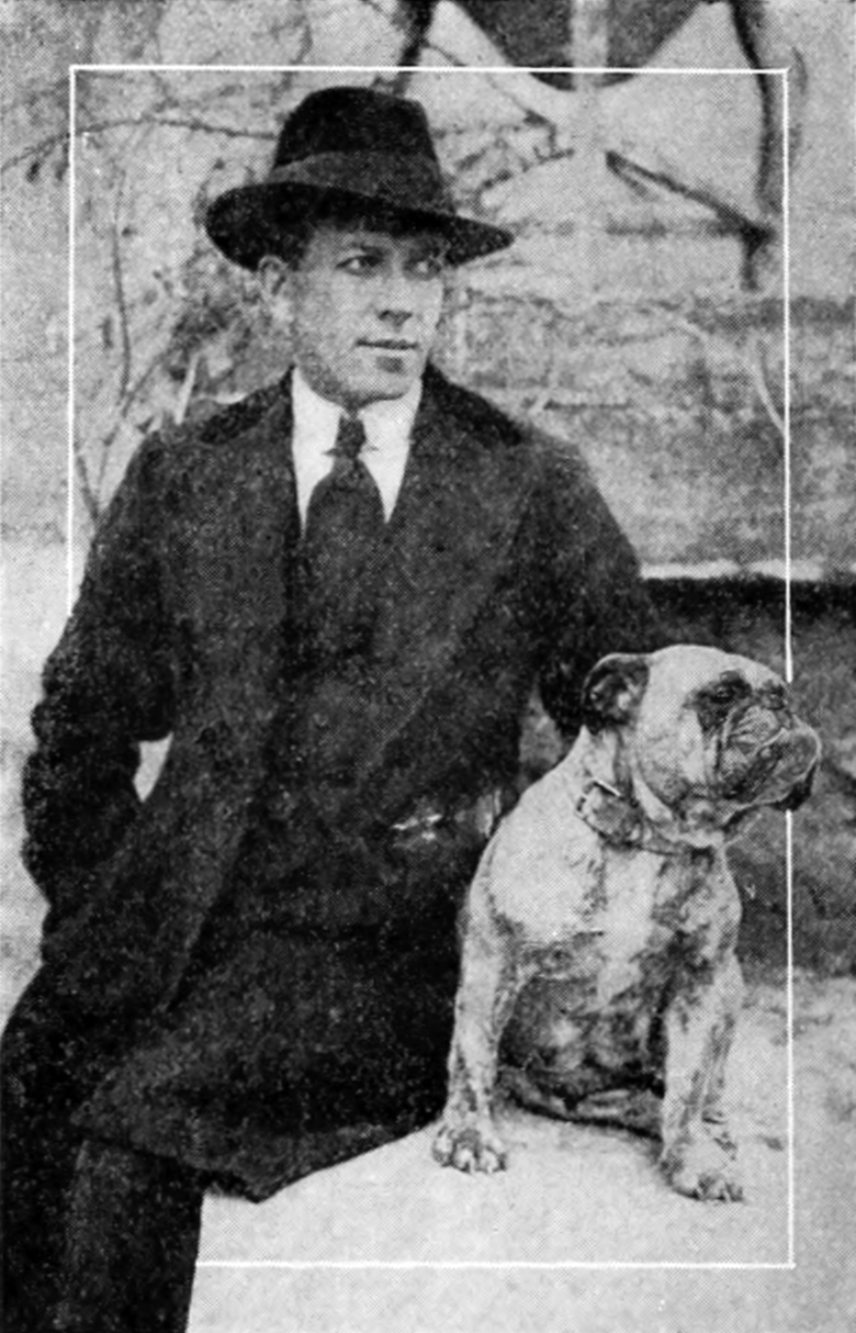 Photograph of director Paul Scardon